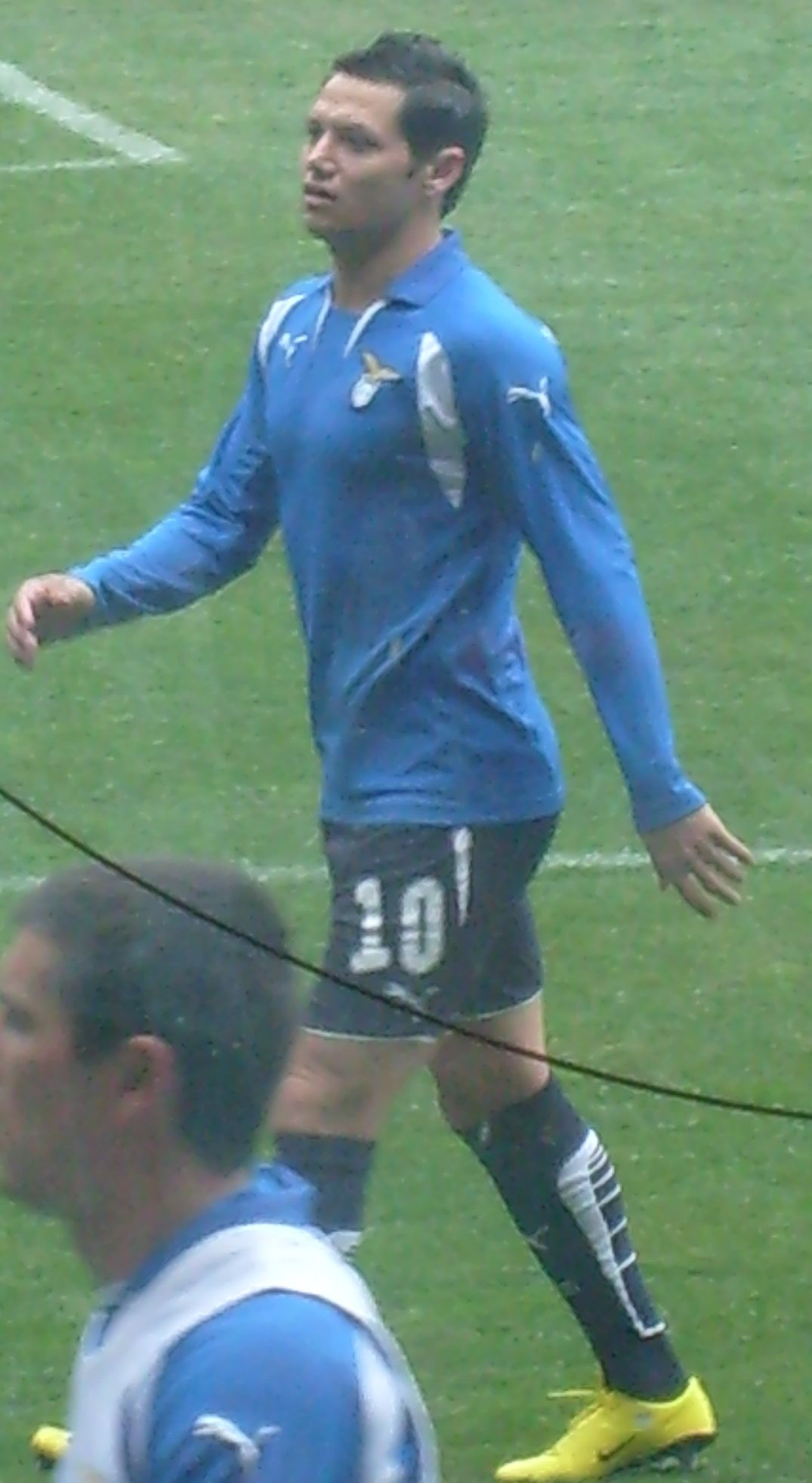 Mauro Zarate at Genova